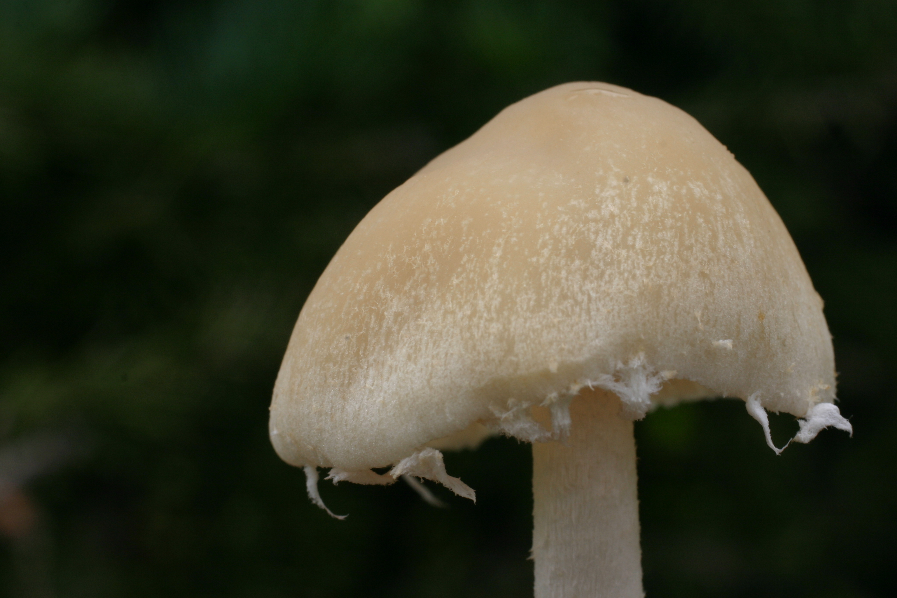 Psathyrella candolleana from Beaver County, Pennsylvania, USA A small, cone-shaped mushroom found in profusion on a lawn shaded by conifers. The cap top is brown, darker near the center. The caps flatten and crack with age. The gills are light tan and do not extend down the stalk. Filmy veil remnants are scattered along the cap rim. The stalk is centrally attached to the cap and is hollow and fragile. There are longitudinal striations on the stalk and the outer layer breaks and extends in spots in scaly appearing protrusions.